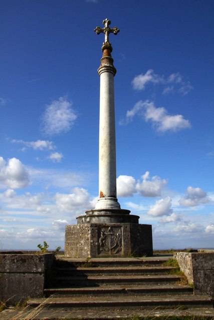 The Lindsay Monument on Betterton Down south of Lockinge, Oxfordshire (formerly Berkshire). Robert Loyd-Lindsay, 1st Baron Wantage founded the English Red Cross and was the first man to win a Victoria Cross in the Crimean War.